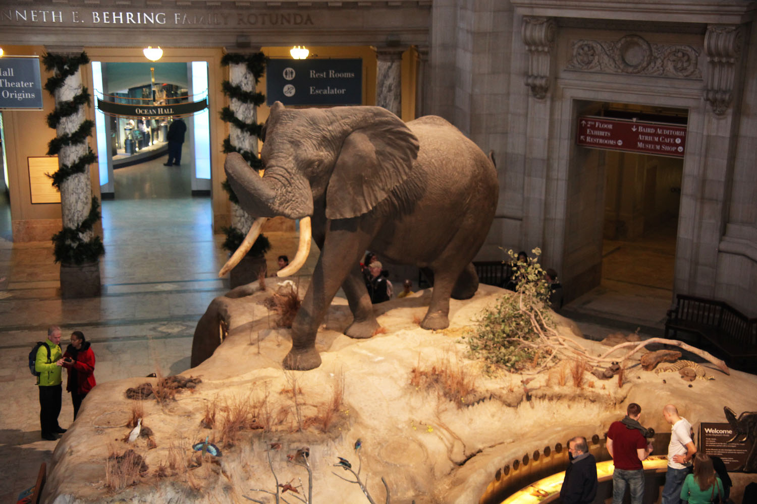 The "Fényköv Elephant" in the rotunda of the Smithsonian Museum of Natural History in Washington, D.C., USA. This was a rogue male African elephant (Loxodonta africana). The hide (which weighs two tons) was donated to the Smithsonian by Hungarian big-game hunter Josef J. Fénykövi. Fénykövi tracked the elephant in the Cuando River region of southeastern Angola in November 1955. He later wrote about the hunt for the magazine Sports Illustrated. Smithsonian taxidermists spent 16 months preparing the animal for exhibition. The hide was tanned, and a massive clay model of the elephant sculpted to fit the hide. Every wrinkle and fold in the skin had to be exactly duplicated. A plaster and fiber mold was then made on top of the skin, and the clay removed. This left a large hollow elephant. It was cut in half to provide easier access. Plaster was then applied to the inside of the skin, and built up using several layers of papier-mâché, burlap, and aluminum mesh. The two halves were joined together and a wooden skeleton placed inside the body to provide even more support. The outer plaster was then laboriously chiseled away to expose the outer skin. The hide was cleaned, painted, and colored with beeswax. The elephant was unveiled on March 6, 1959. At the time, it was the world’s largest land mammal on display in a museum. The tusks are not ivory. The original tusks were too heavy for the model (they weighed 90 pounds each), and are kept in storage. Celluloid tusks were cast in 1959, but in 1988 they were replaced with fiberglass ones. The eyes are made of hand-blown glass.